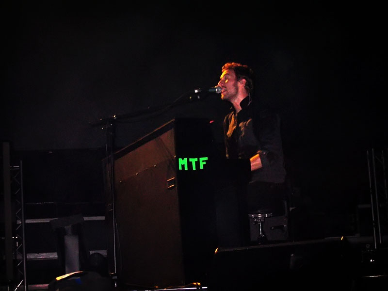 MAKE TRADE FAIR! As a fan of Coldplay, I, like the rest of the band members and fans strongly support the idea of Make Trade Fair, and here I would like to urge my friends and ppl who visit my flickR to play a role in supporting this campaign as well.. Take a moment to drop by )